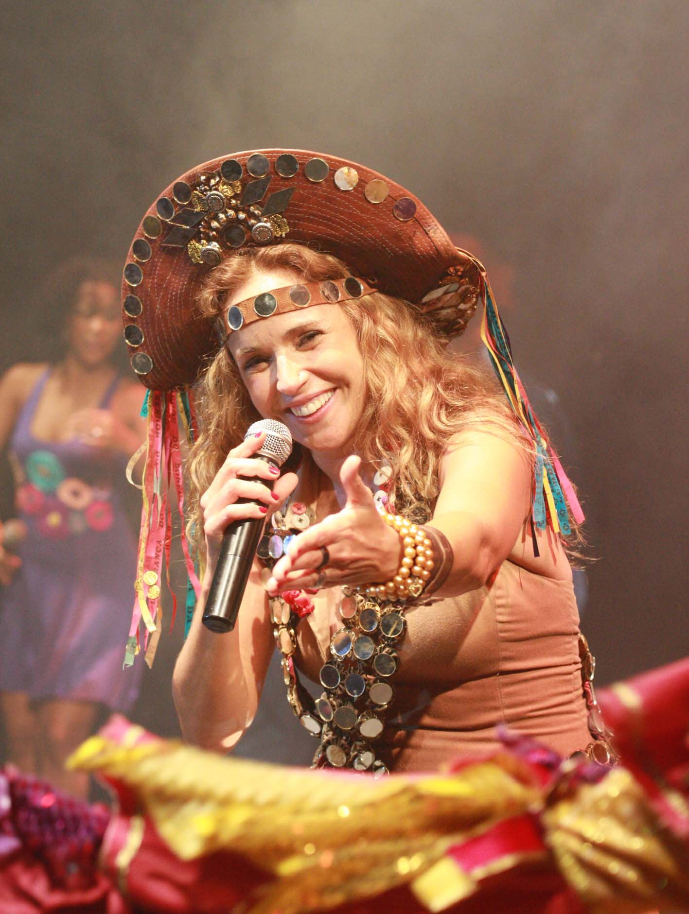 The singer Daniela Mercury was one of the attractions of São João do Pelourinho in 2009.